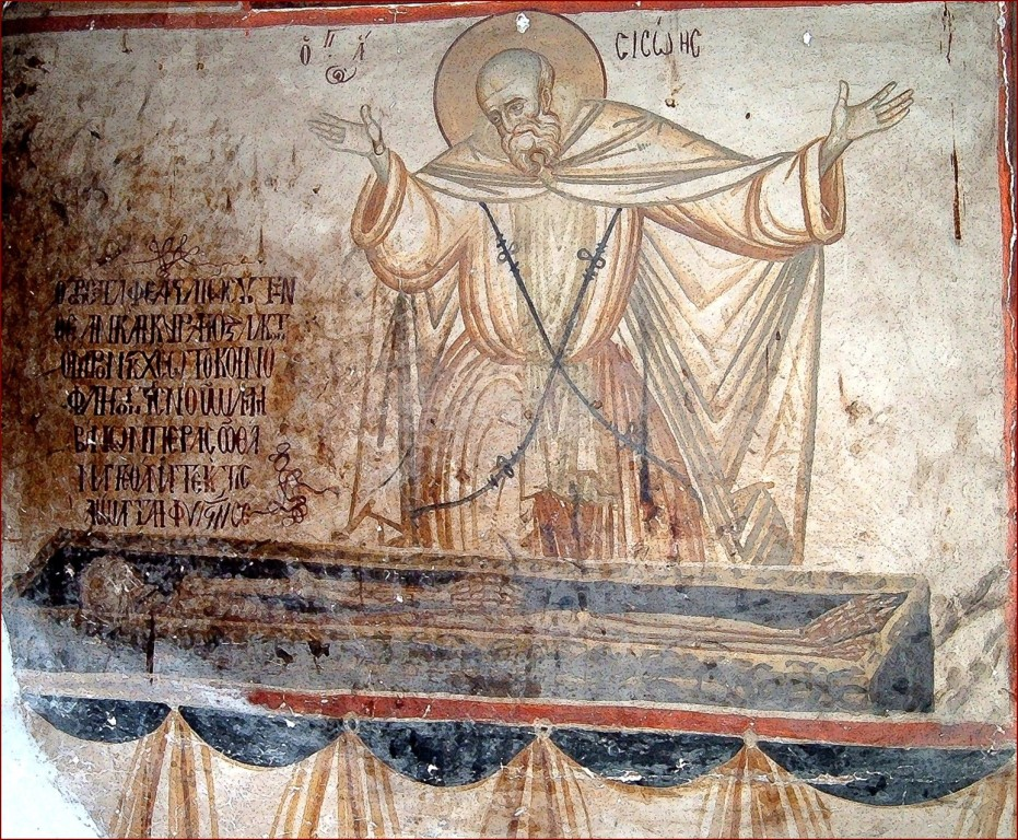 Saint Sisoes Fresco in Saint John Church in Apozari